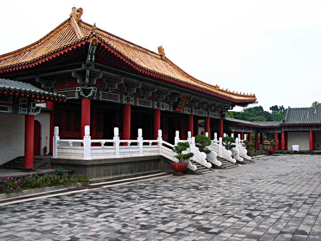 The Confucian Temple on Lotus Lake, in Kaohsiung City, Taiwan